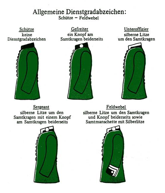 Universal Uniform Tunic Service Rank Insignia description from rank Schütze (Rifleman) to Feldwebel (Sergeant Major) of the 10th Hanoverian Jaeger Battalion (Hannoversches Jäger-Bataillon Nr. 10), Light Infantry, Royal Prussian Army, X Army Corps.